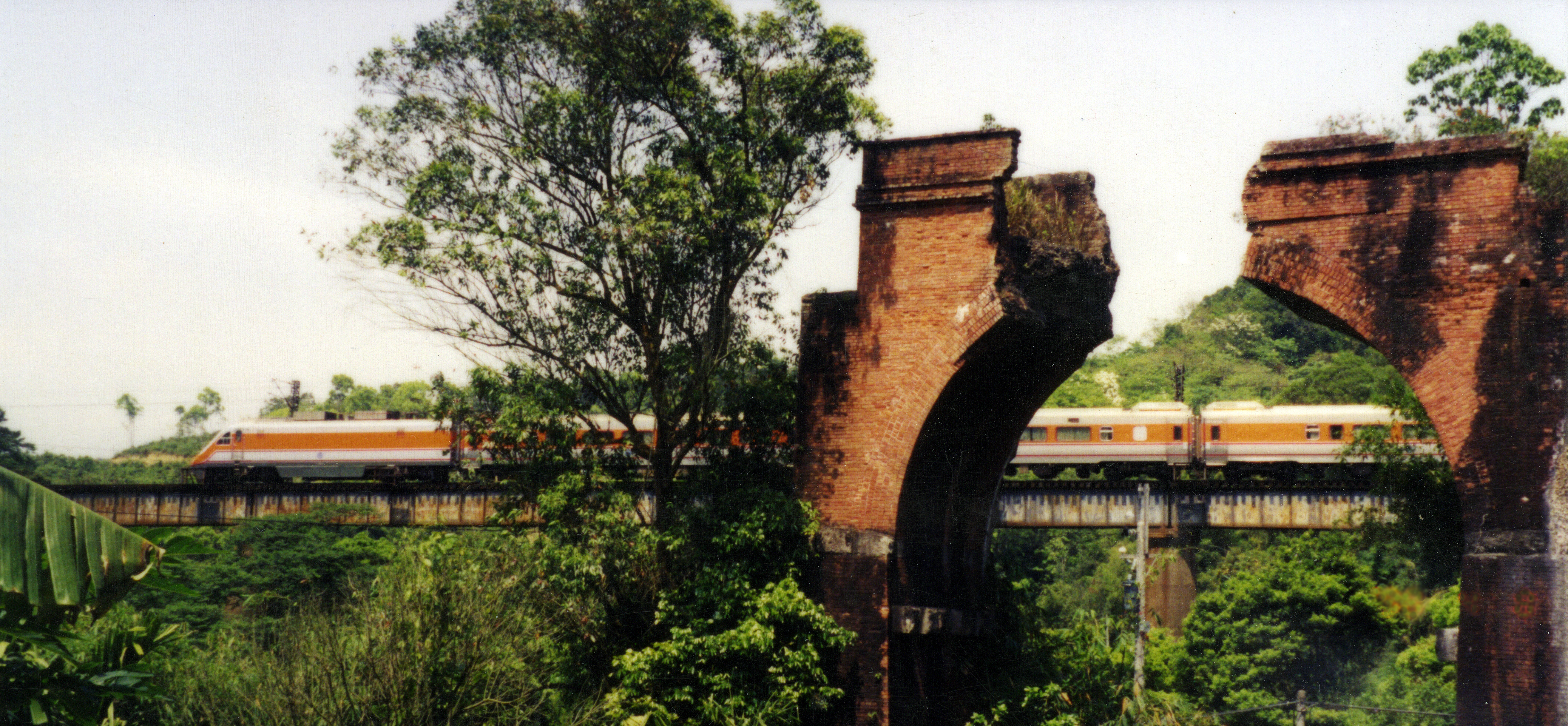 Tzu chiang Express and Yutengping Bridge